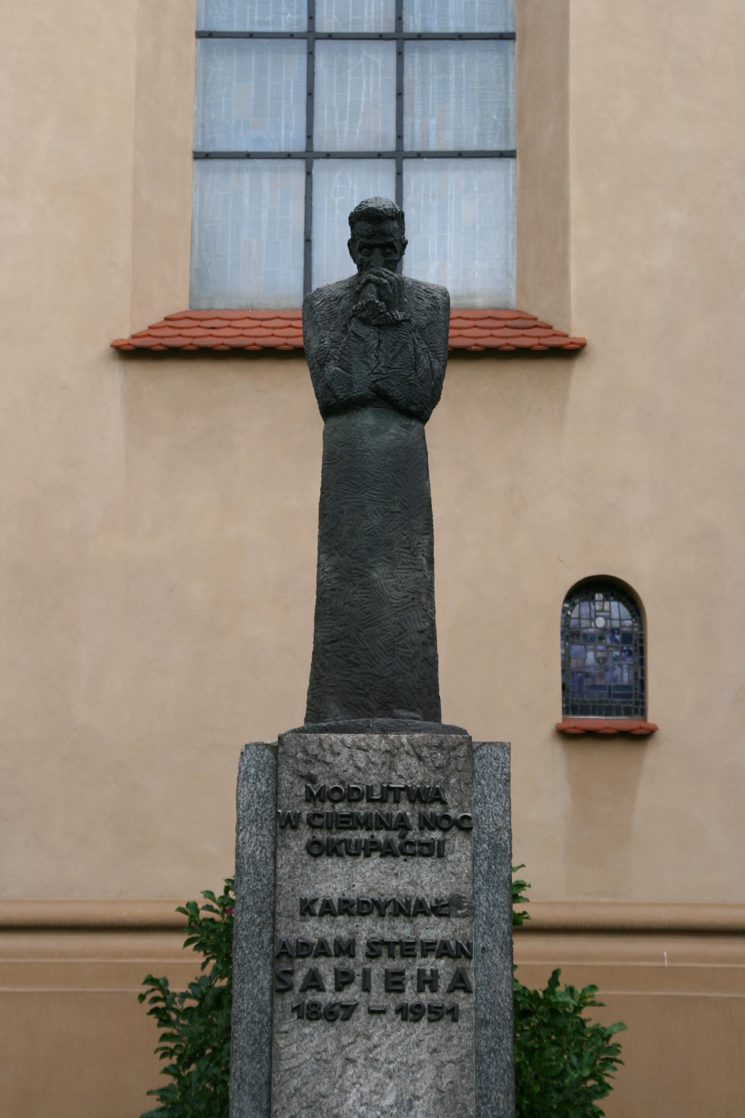 Adam Stefan Sapieha Monument in Kraków.